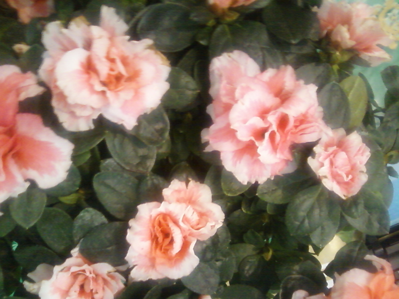 Azalea are flowering shrubs comprising two of the eight subgenera of the genus Rhododendron